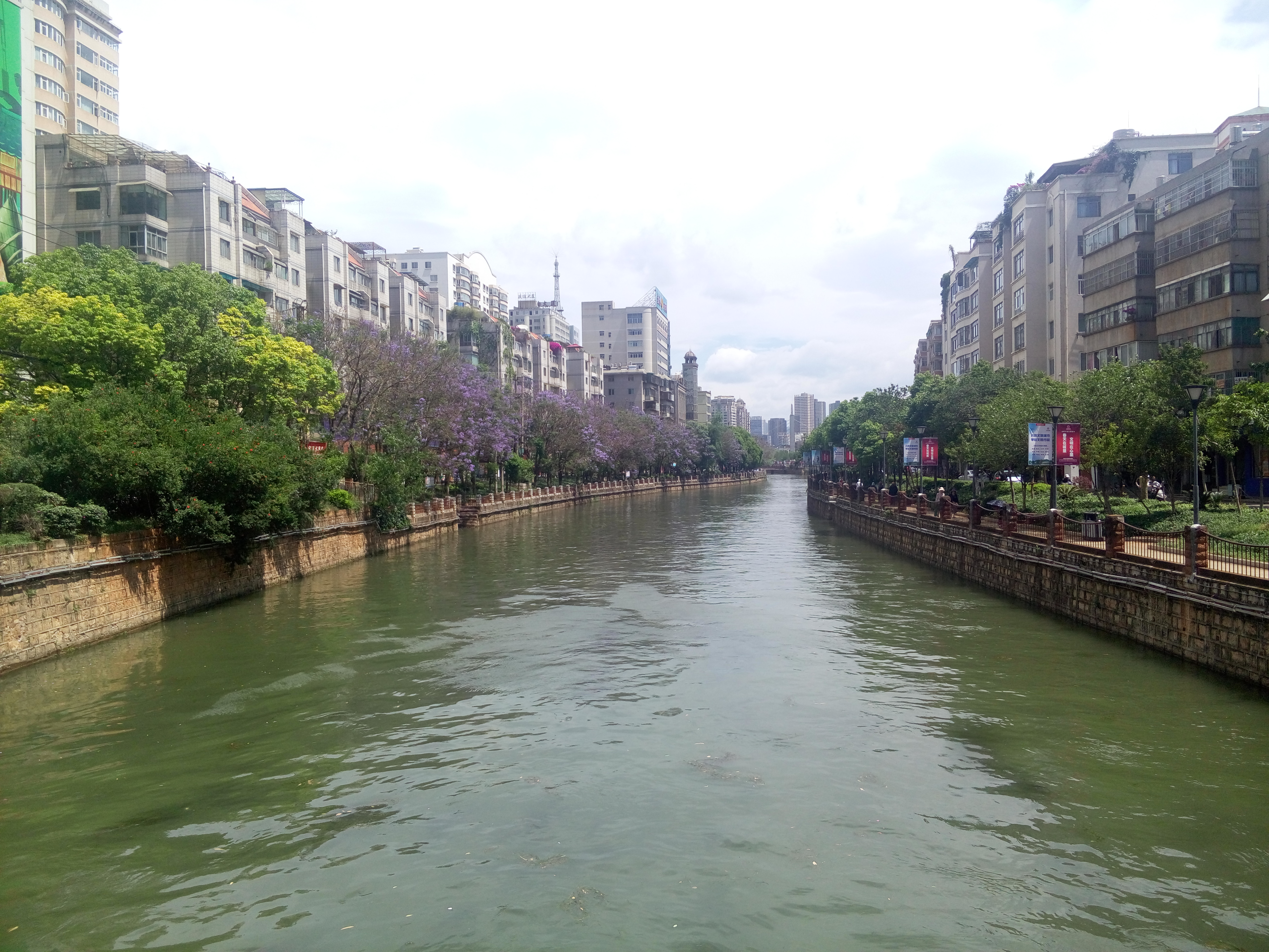 Taoyuan reach in Panlong River, took on Borun Bridge